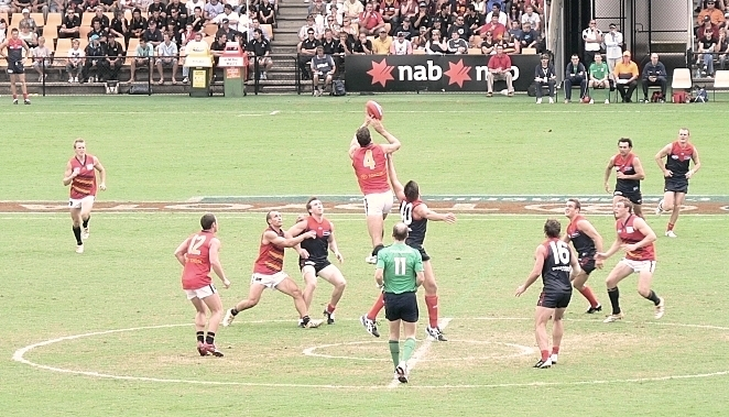 Aussie Rules Game on the Gold Coast, Queensland Featured teams: Adelaide Crows (Red) Melbourne Demons (Navy & Rouge)